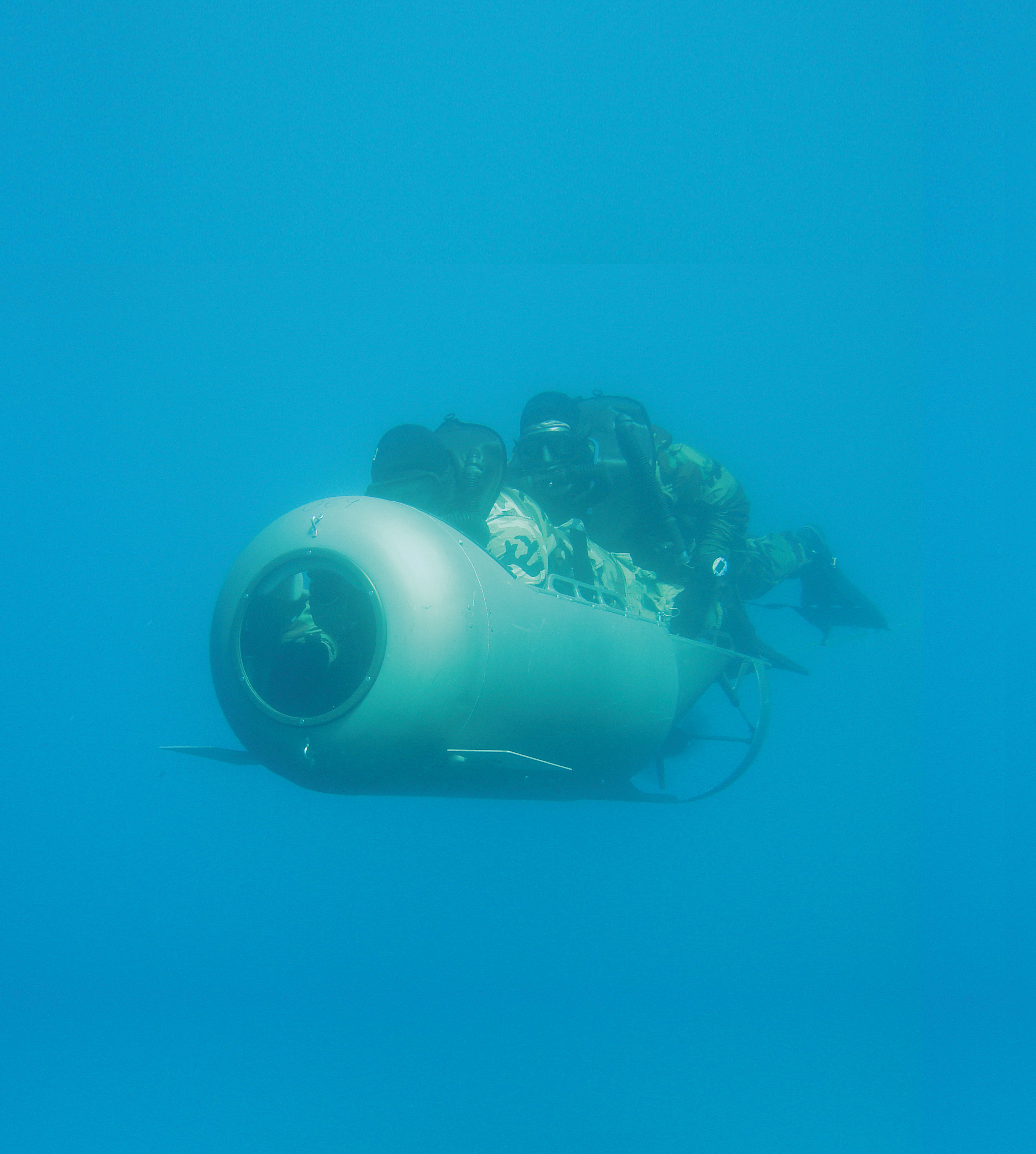 Diver Propulsion Device (DPD) with 2 Marine test Divers Cpt Lawrence R Gentile and Ssgt Robert Romito.